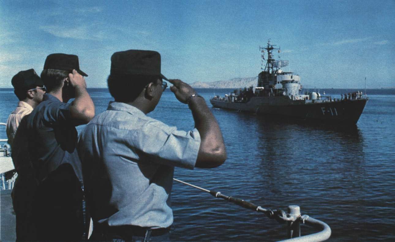 U.S. Navy sailors aboard the guided missile destroyer USS William V. Pratt (DDG-44) render honours to the passing Venezuelan frigate Almirante Clemente (F-11) during exercise Unitas XIX in 1978.